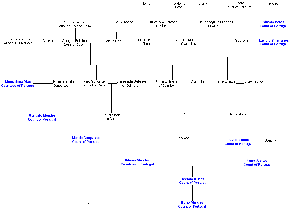 Image of the genealogy of the Counts of the First County of Portugal, the so called House of Vímara Peres, I had originally done and uploaded forthe English language Wikipedia.